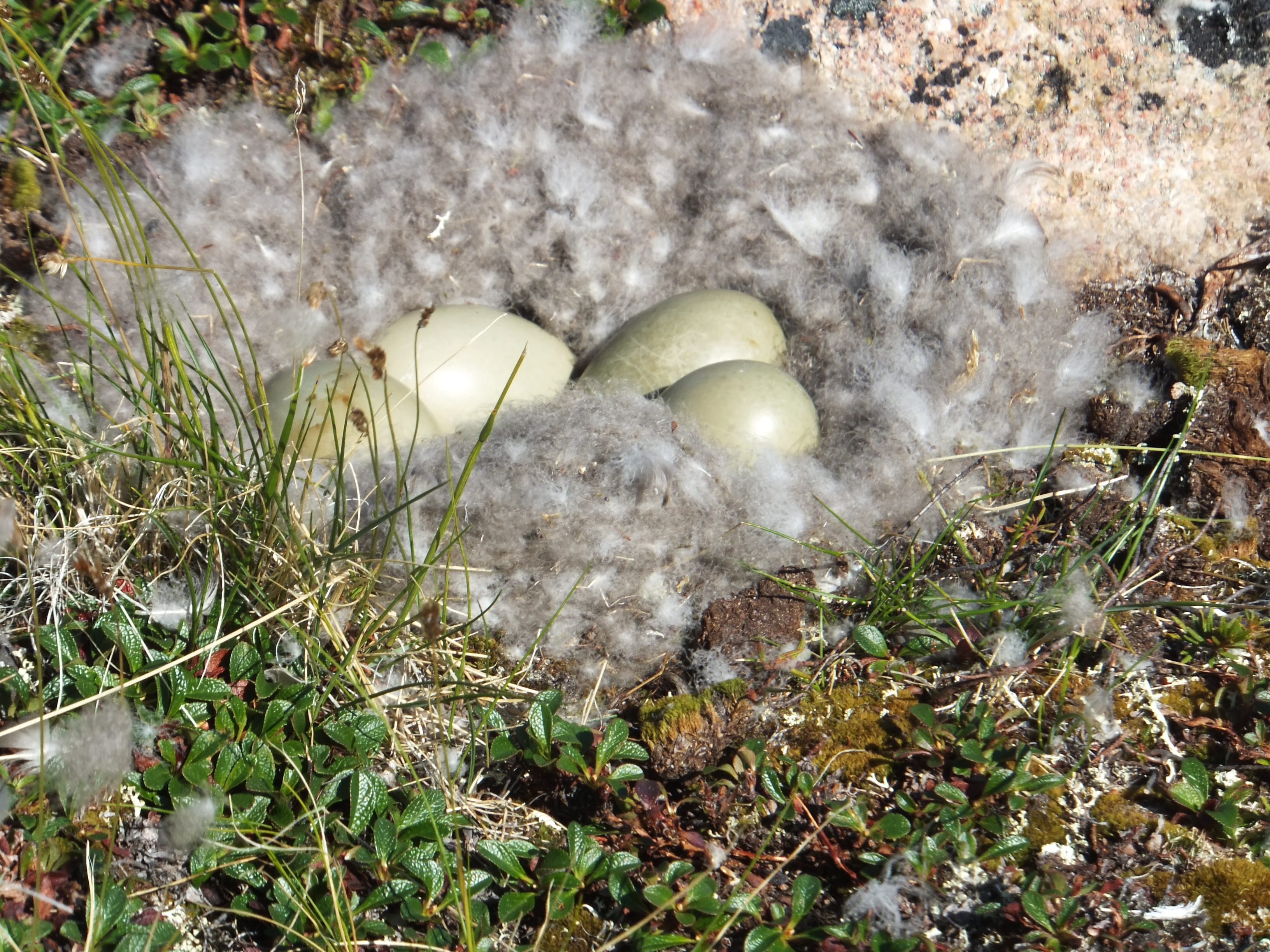 On tundra in Ukkusiksalik National Park, July